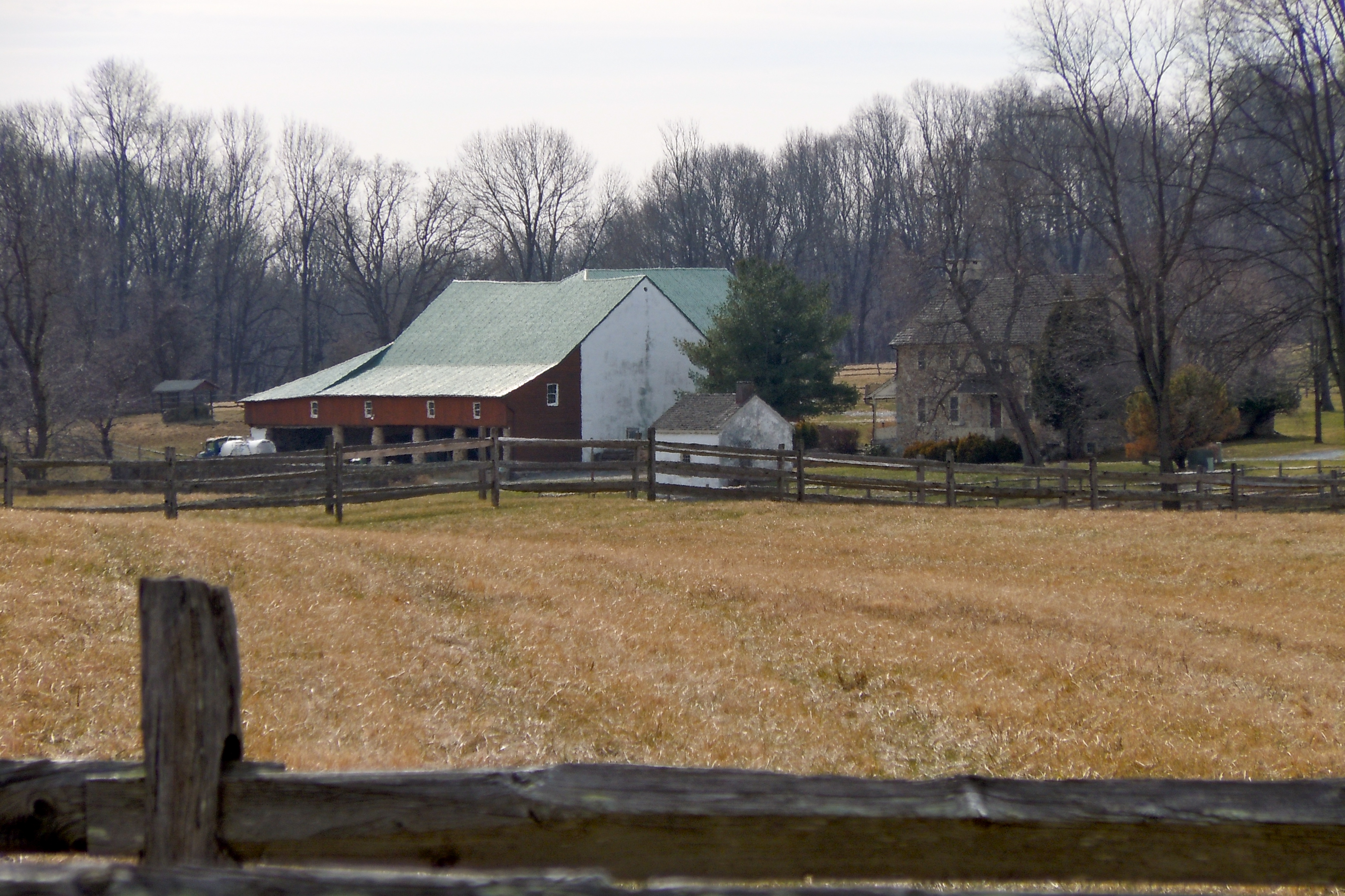 Lahr Farm on the NRHP since September 7, 1979. East of Elverson on Pennsylvania Route 23 (Ridge Road), near corner with Grove Road, Warwick Township, Chester County, Pennsylvania. This is a working farm, set well back from the road with prominent no trespassing signs and a locked gate. Photo taken from corner at Grove, bring a powerful telephoto lens if you want a better picture! House built very approx. about 1800.